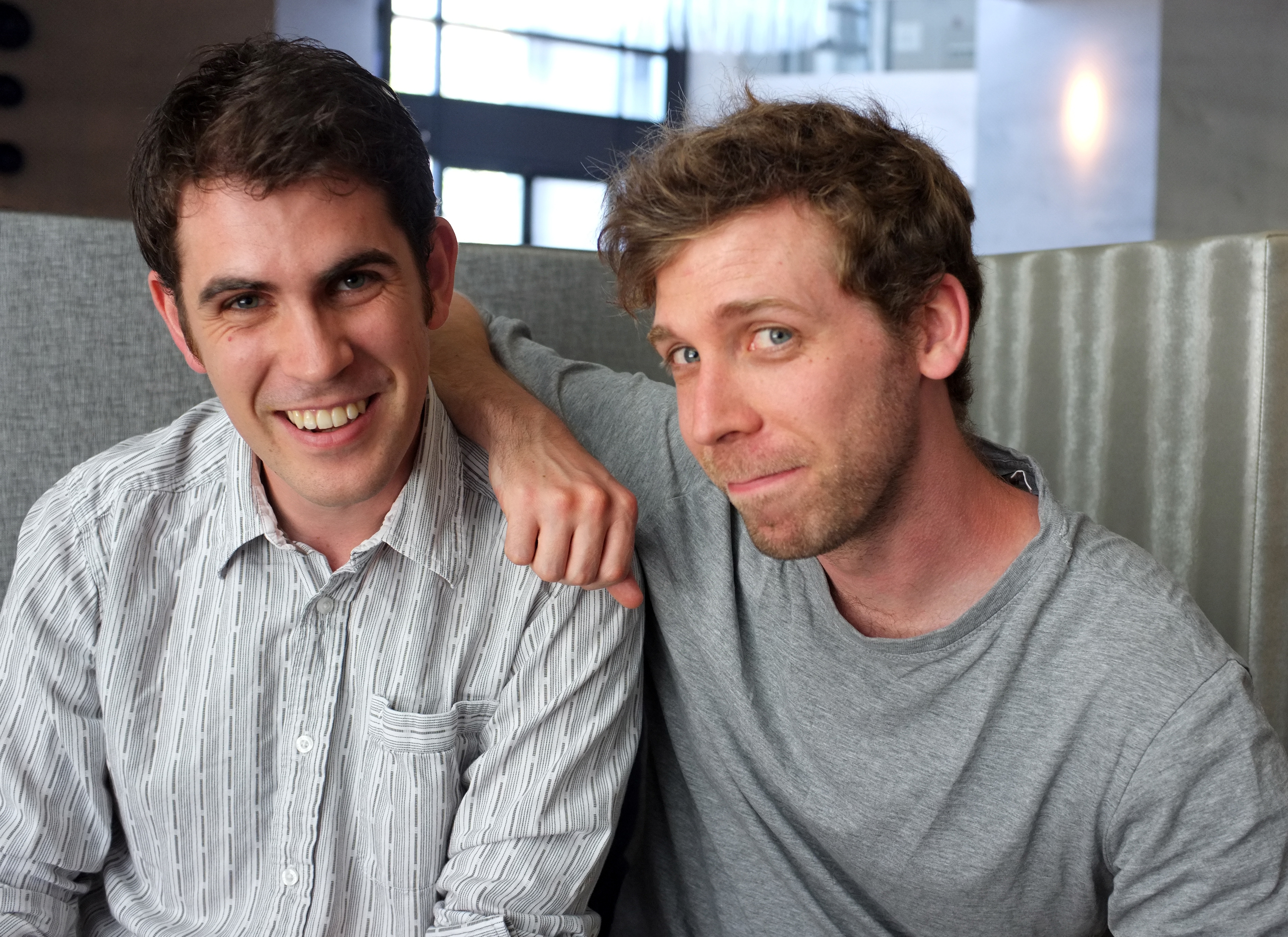 Sean Murray (left) and Grant Duncan of game development studio Hello Games, circa 2012